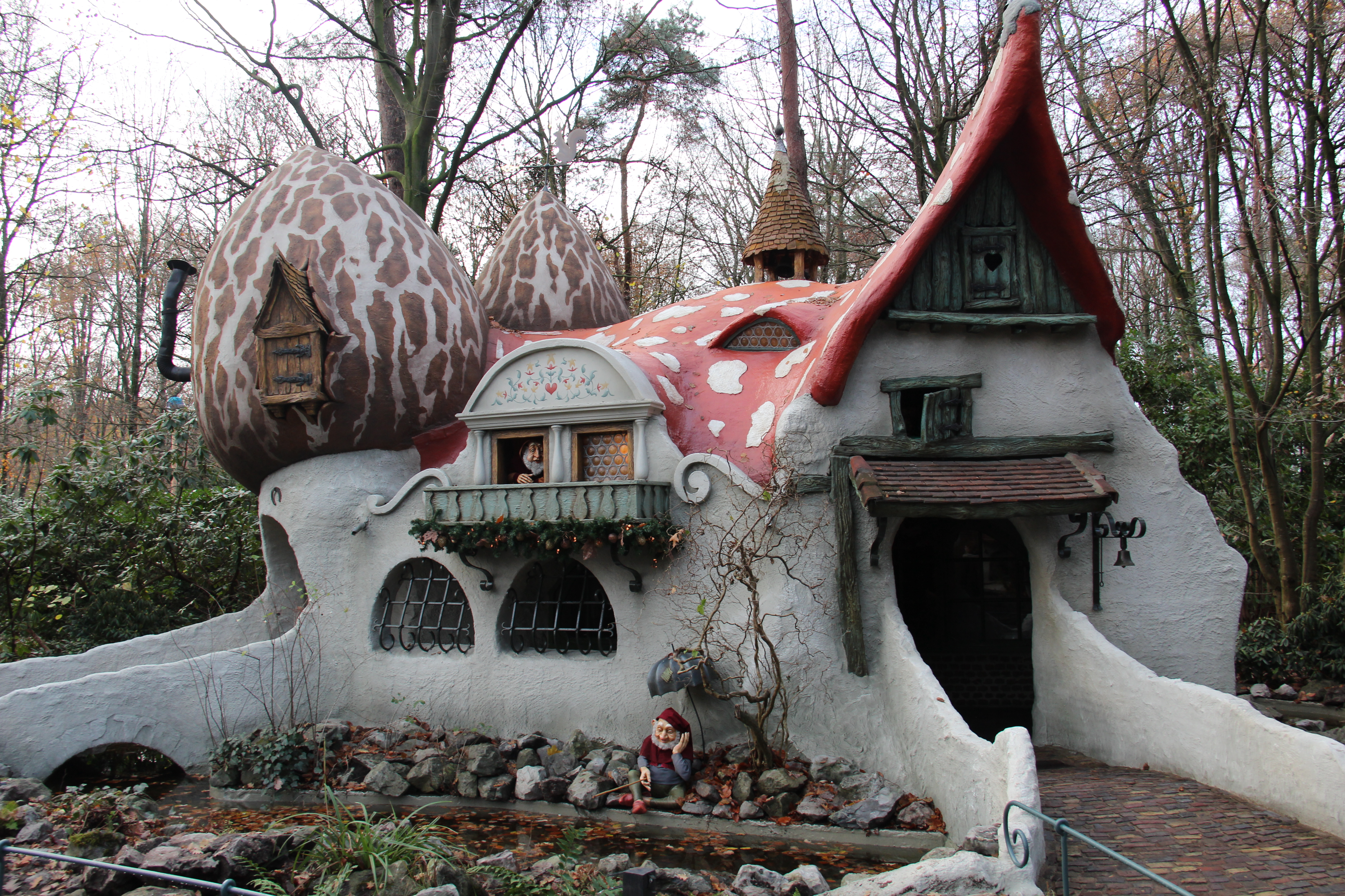 efteling